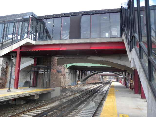 Looking north under Broad Street and Cross Westchester Parkway from Fleetwood station on a partly cloudy morning.